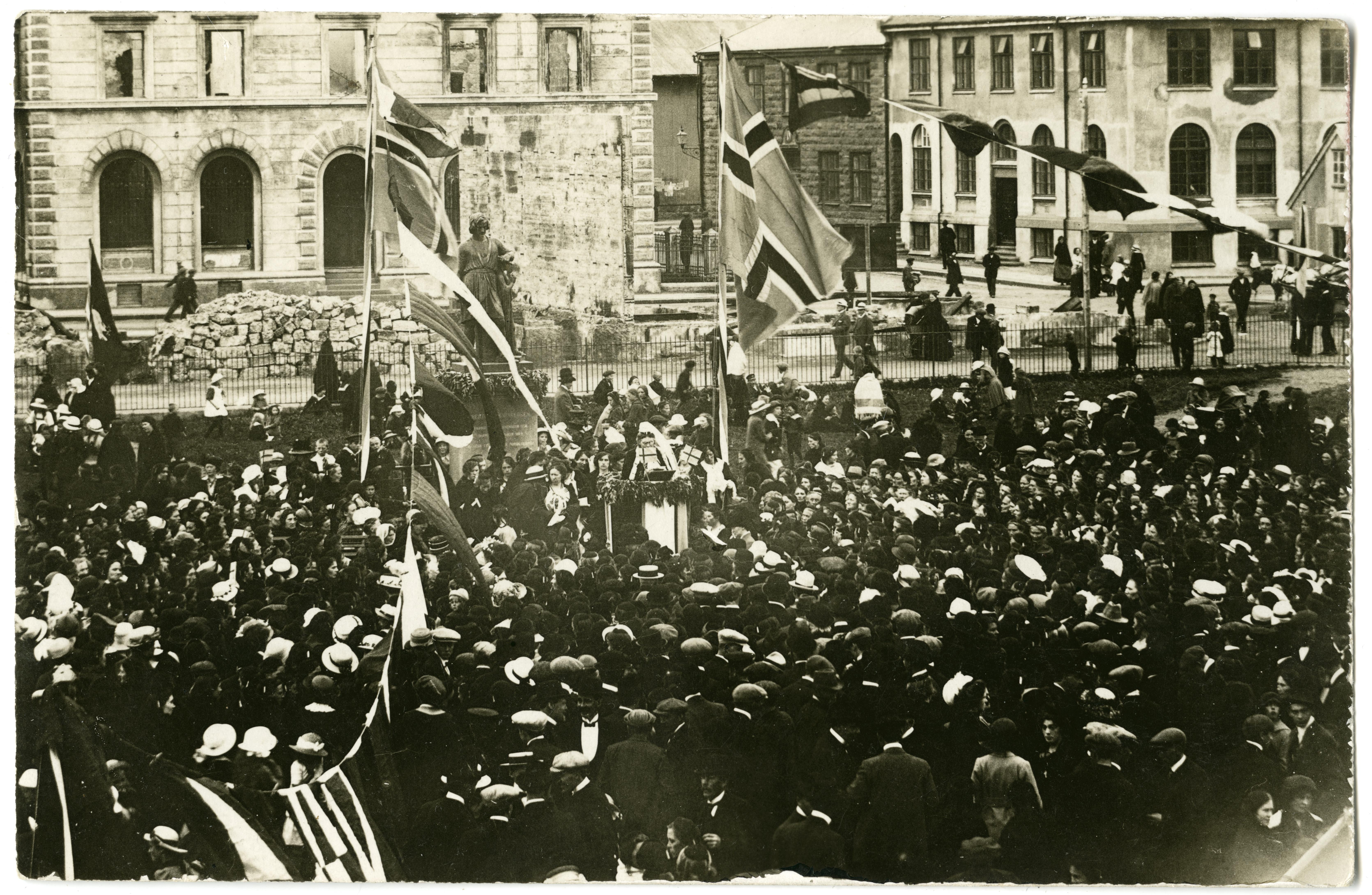 Bríet Bjarnhéðinsdóttir makes a speech at Austurvöllur-square in Reykjavík on July 7th 1915 to celebrate women's suffrage.